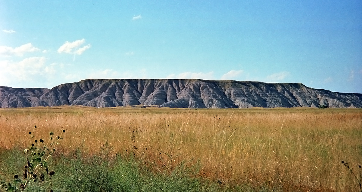 Badlands National Park, South Dakota, USA